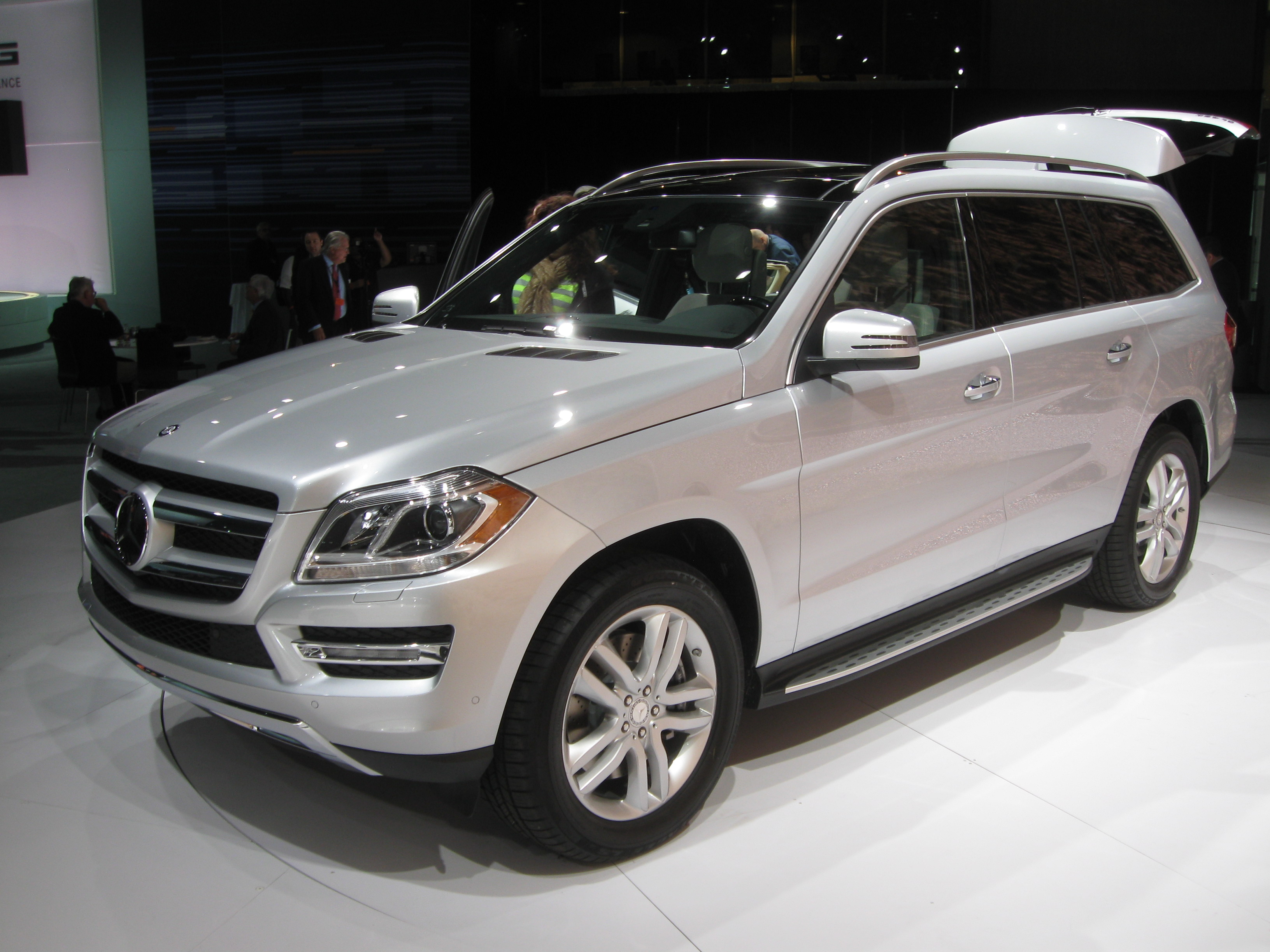 2013 Mercedes-Benz GL photographed at the 2012 New York International Auto Show.